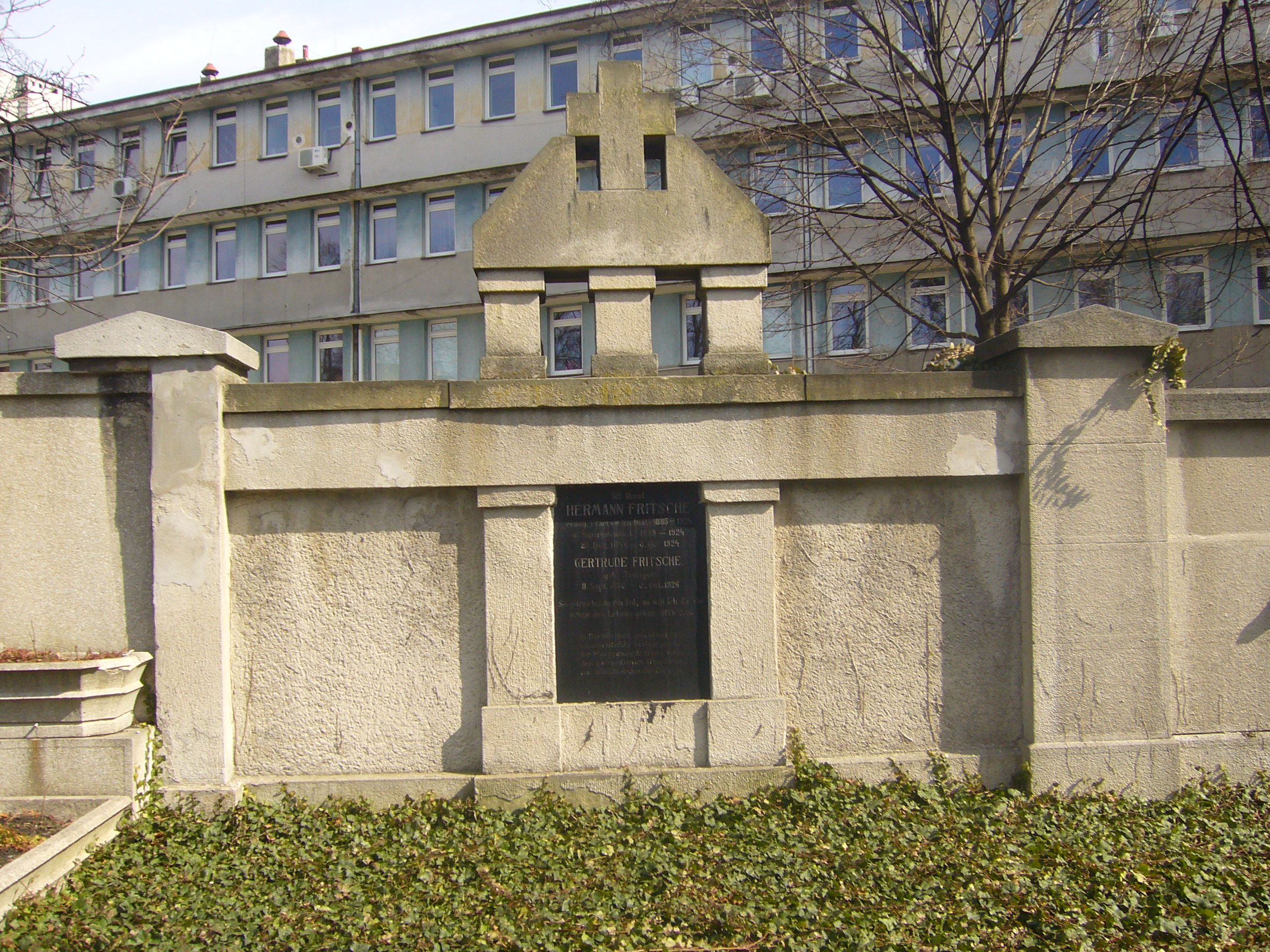 Grave of Hermann Fritsche on evangelical cemetery in Piłudskiego Street in Bielsko-Biała, Poland.